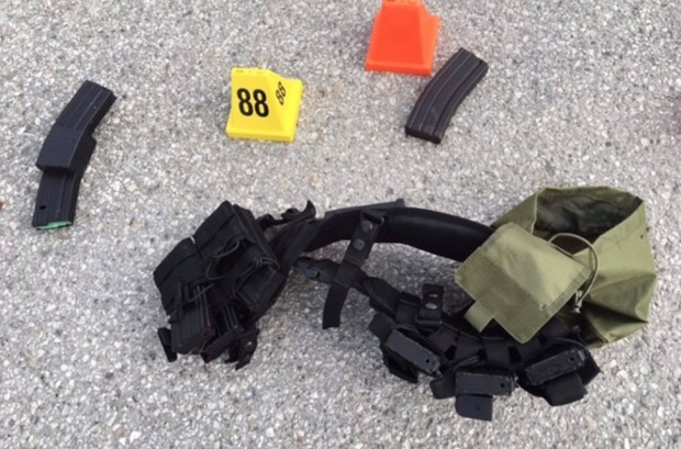 Tactical belt used by one of the shooters at the w:2015 San Bernardino shooting